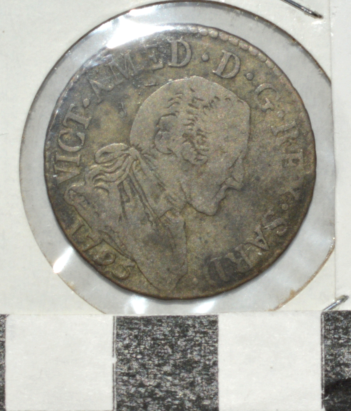 20 Soldi coin from the Italian Kingdom of Sardinia. The coin features an image of Victorio Amedeo III and was minted in 1795.Title: 1795 20 Soldi Coin